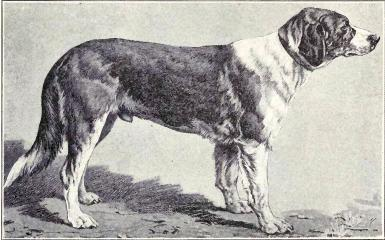 Russian Hound from 1915